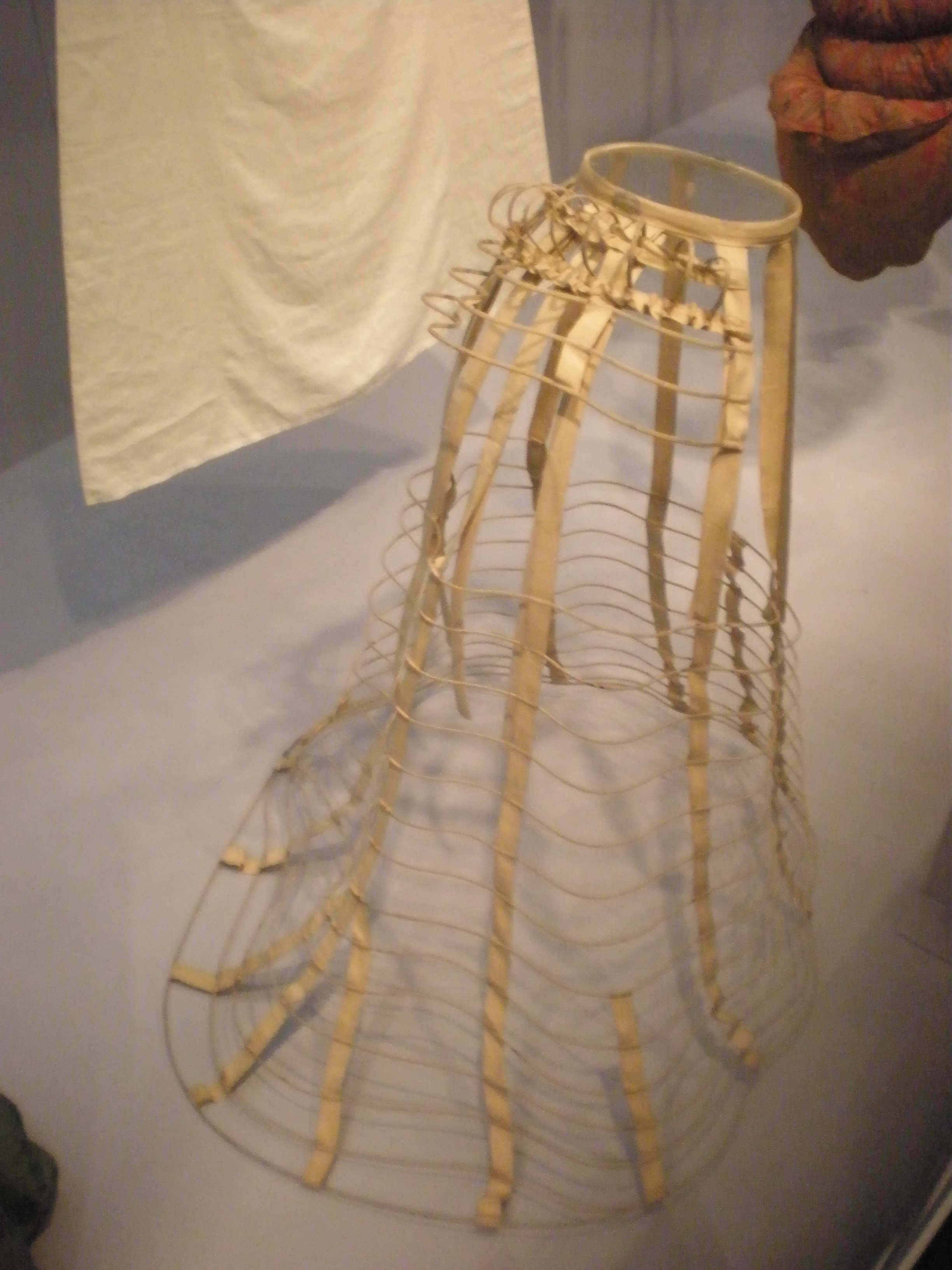 Cage Crinoline About 1868 Britain Spring-steel hoops covered in linen Ever widening skirts led to the introduction of the cage crinoline in 1856. It provided a welcome relief from the cumbersome layers of petticoats that ladies had previously worn to support their clothes. Crinolines were originally dome-shaped but they gradually flattened at the front in favour of a more pronounced silhouette behind. Given by Miss C. E. and Miss E. C. Edlmann Collection ID: T.195-1984 This photo was taken as part of Britain Loves Wikipedia in February 2010 by David Jackson.